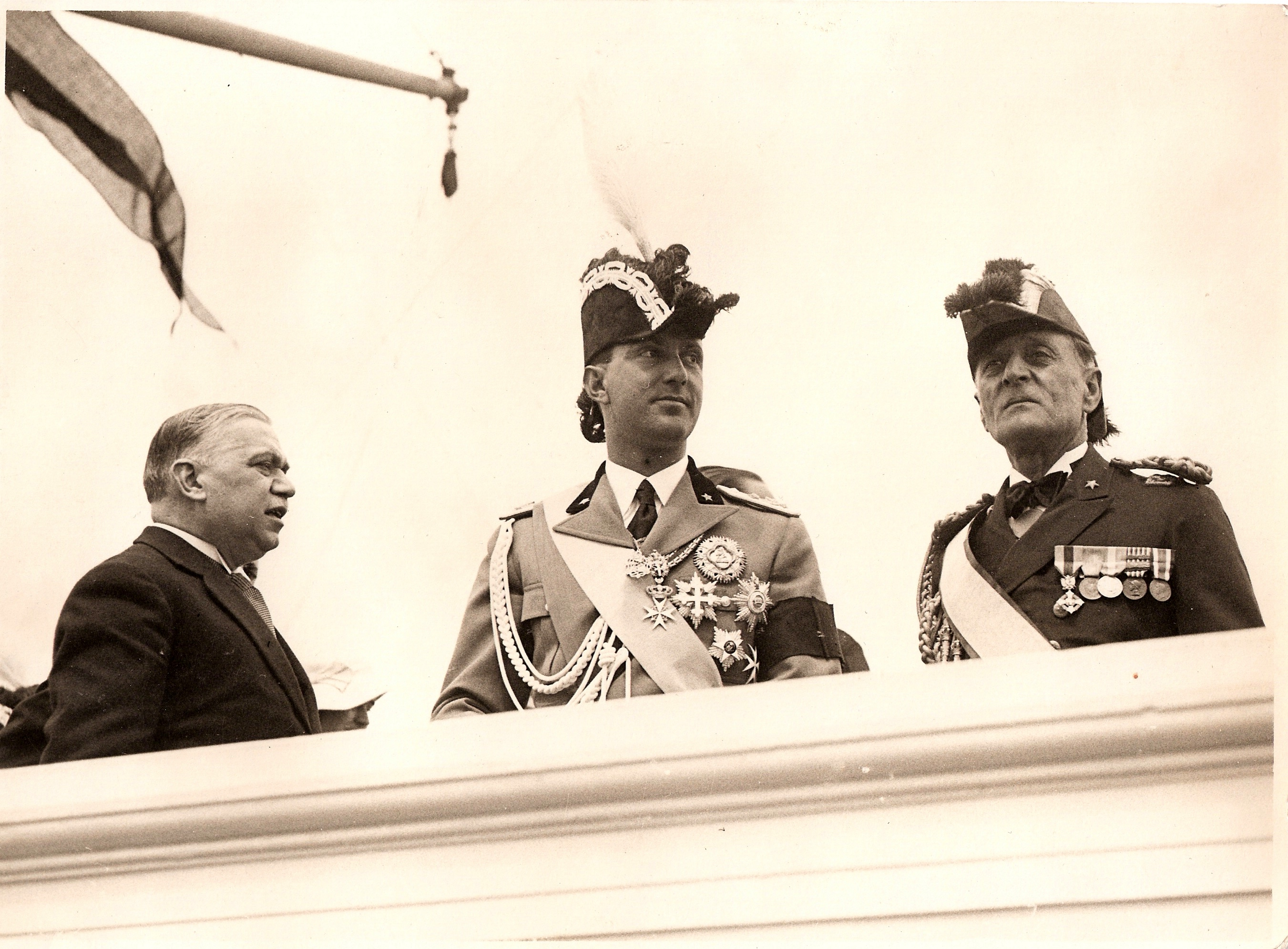 Admiral Ernesto Burzagli and Crown Prince Umberto II of Italy in 1923.. The original picture, scanned by Emiliano Burzagli, belongs to the Private archive of Burzagli family, Italy.